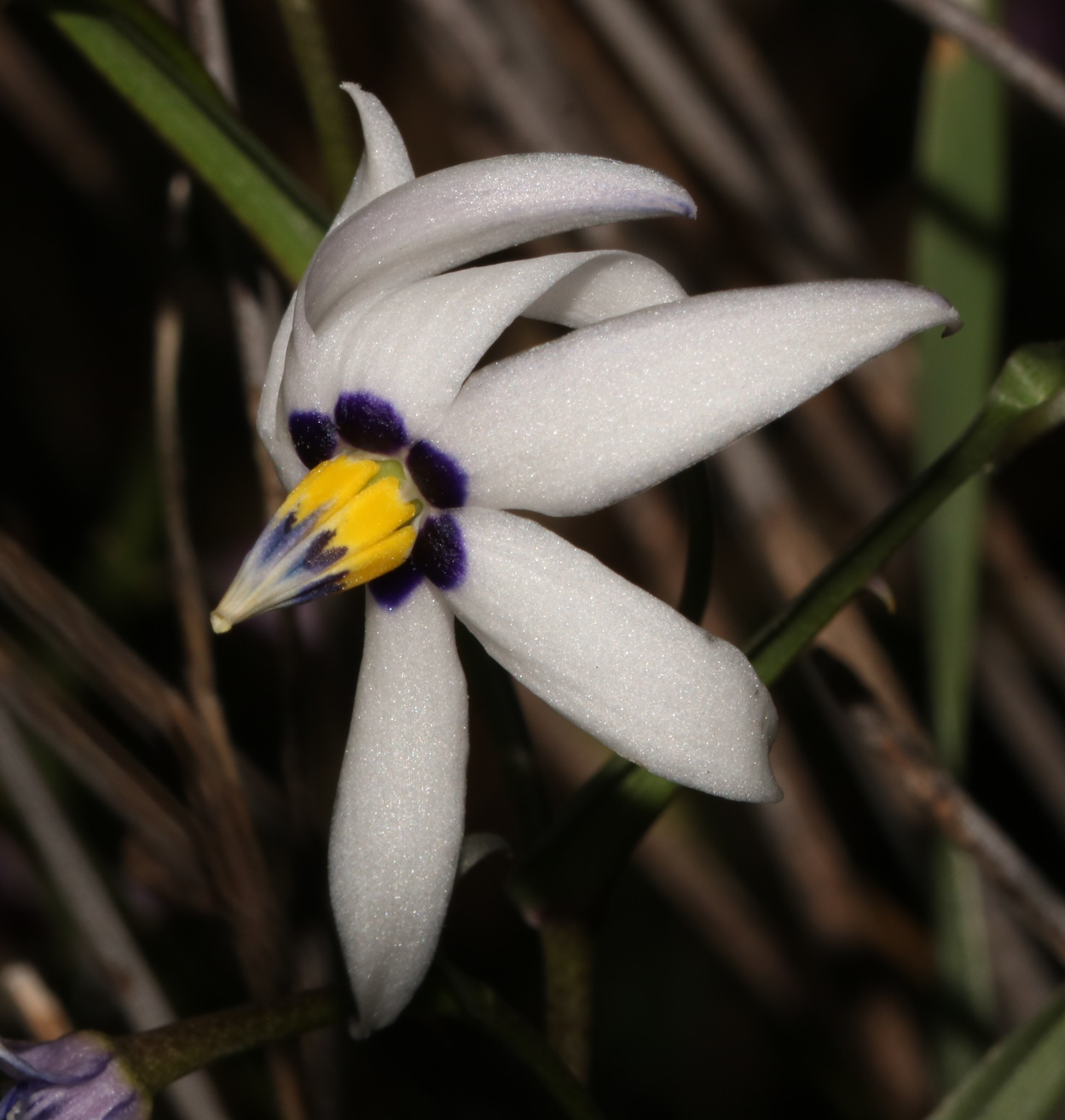 Potatolily (Walleria gracilis)